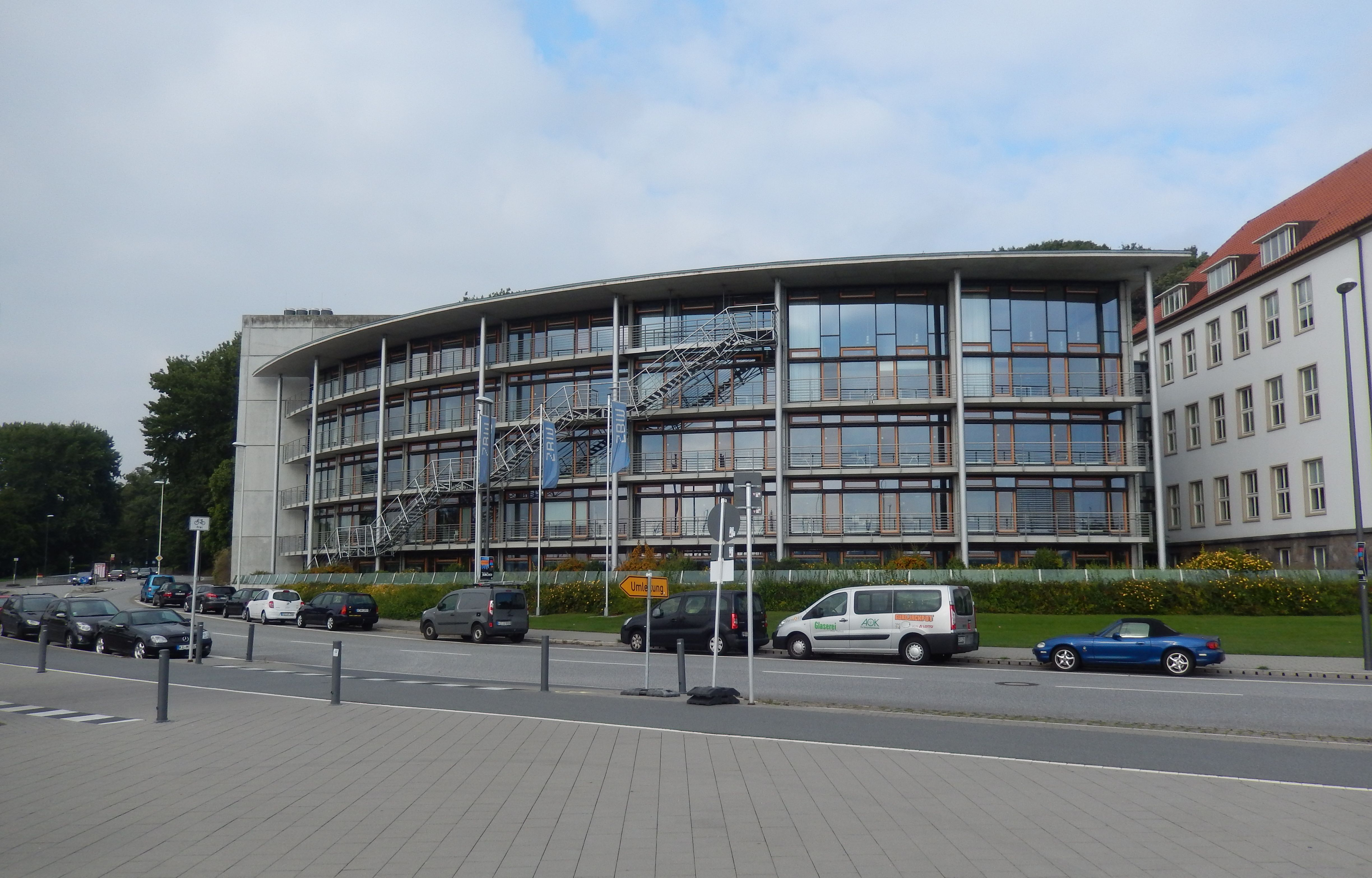 Library Deutsche Zentralbibliothek für Wirtschaftswissenschaften in Kiel, Germany.